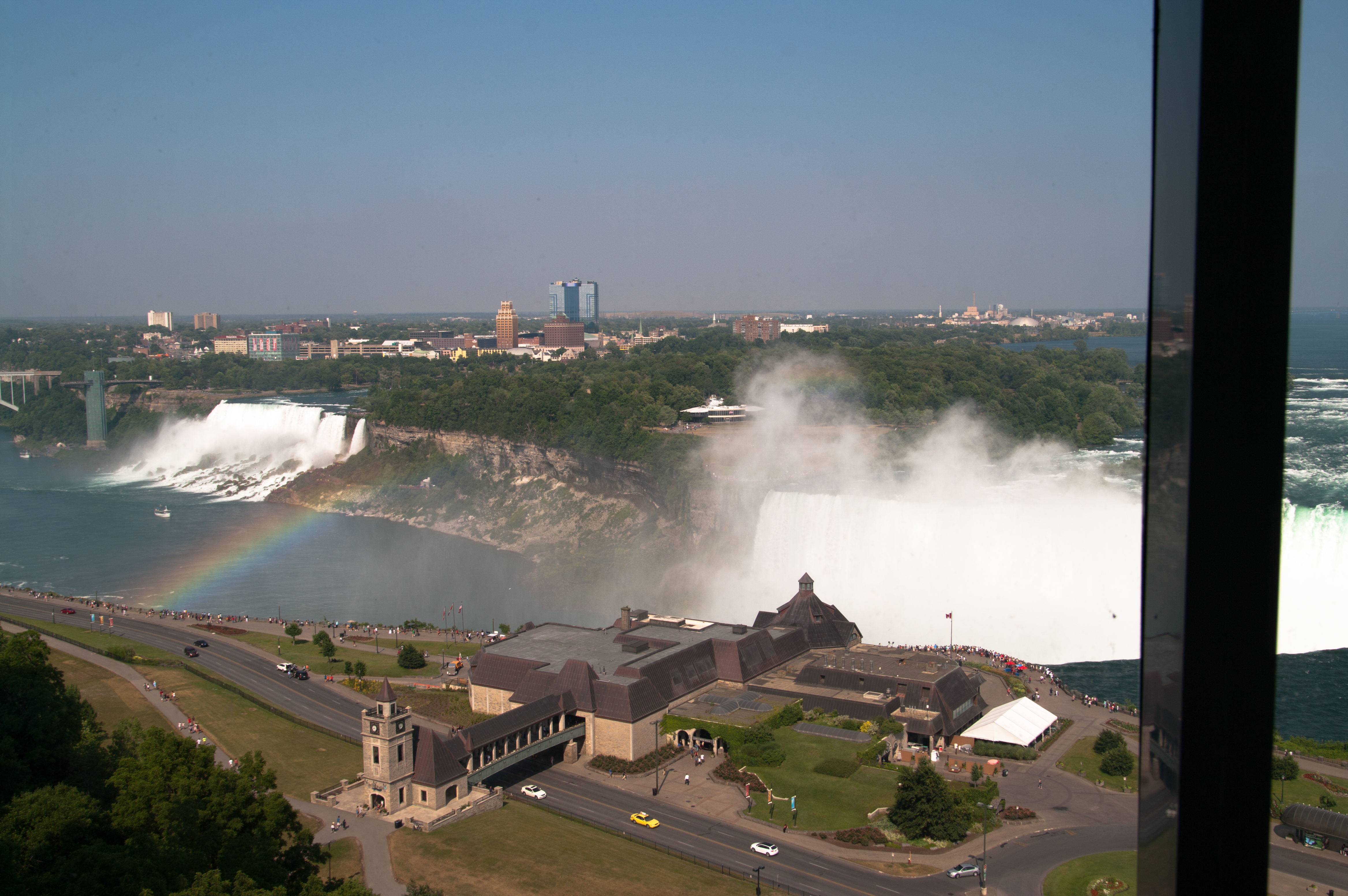 View from the Marriott Hotel Fallsview towards the American Falls and Niagara River.